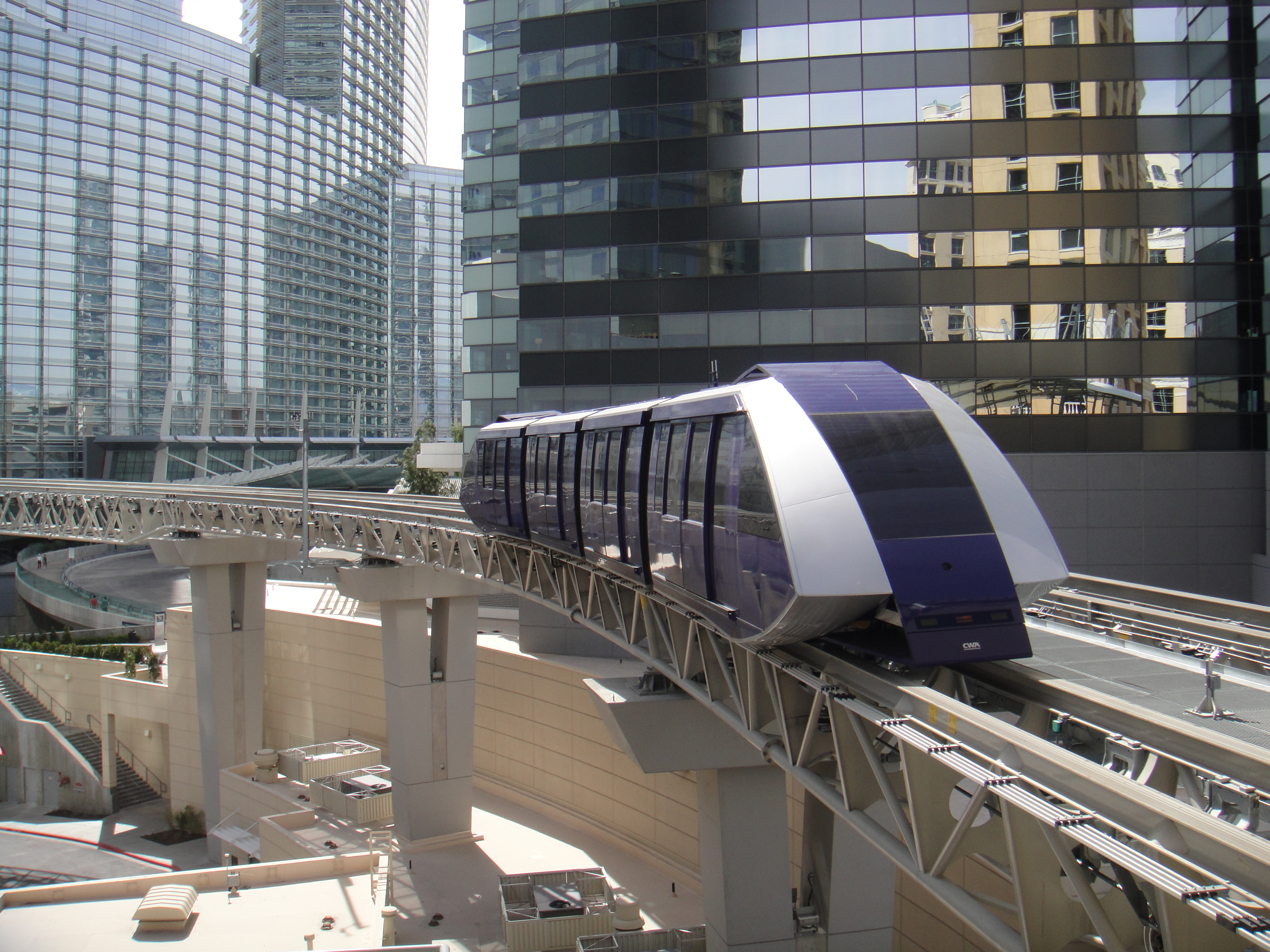 Photo of one of the two trams that run between the Park MGM and Bellagio hotels in the CityCenter development in Las Vegas, Nevada